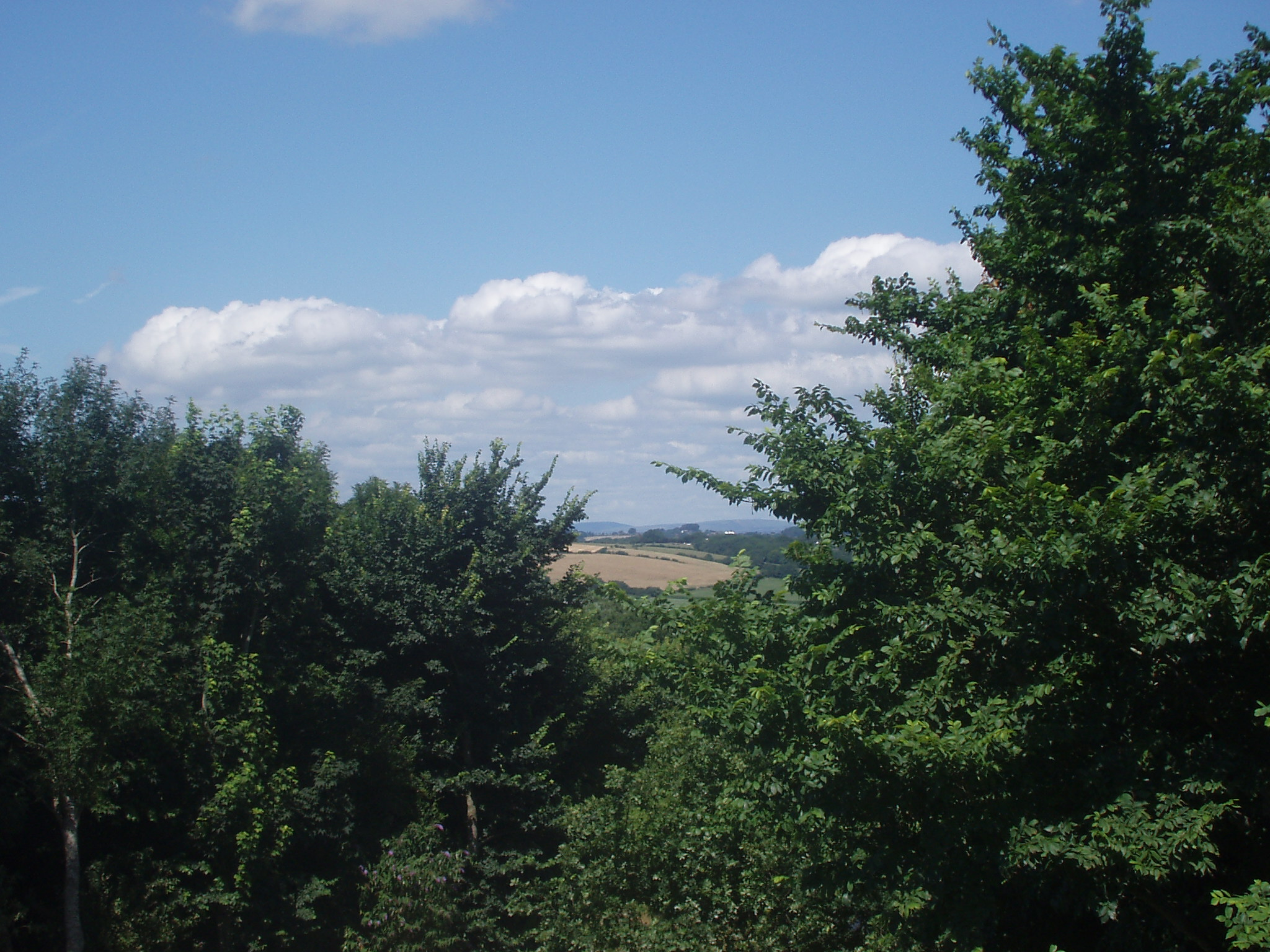 The rolling countryside of the Vale of Glamorgan in south Wales, obscured by trees